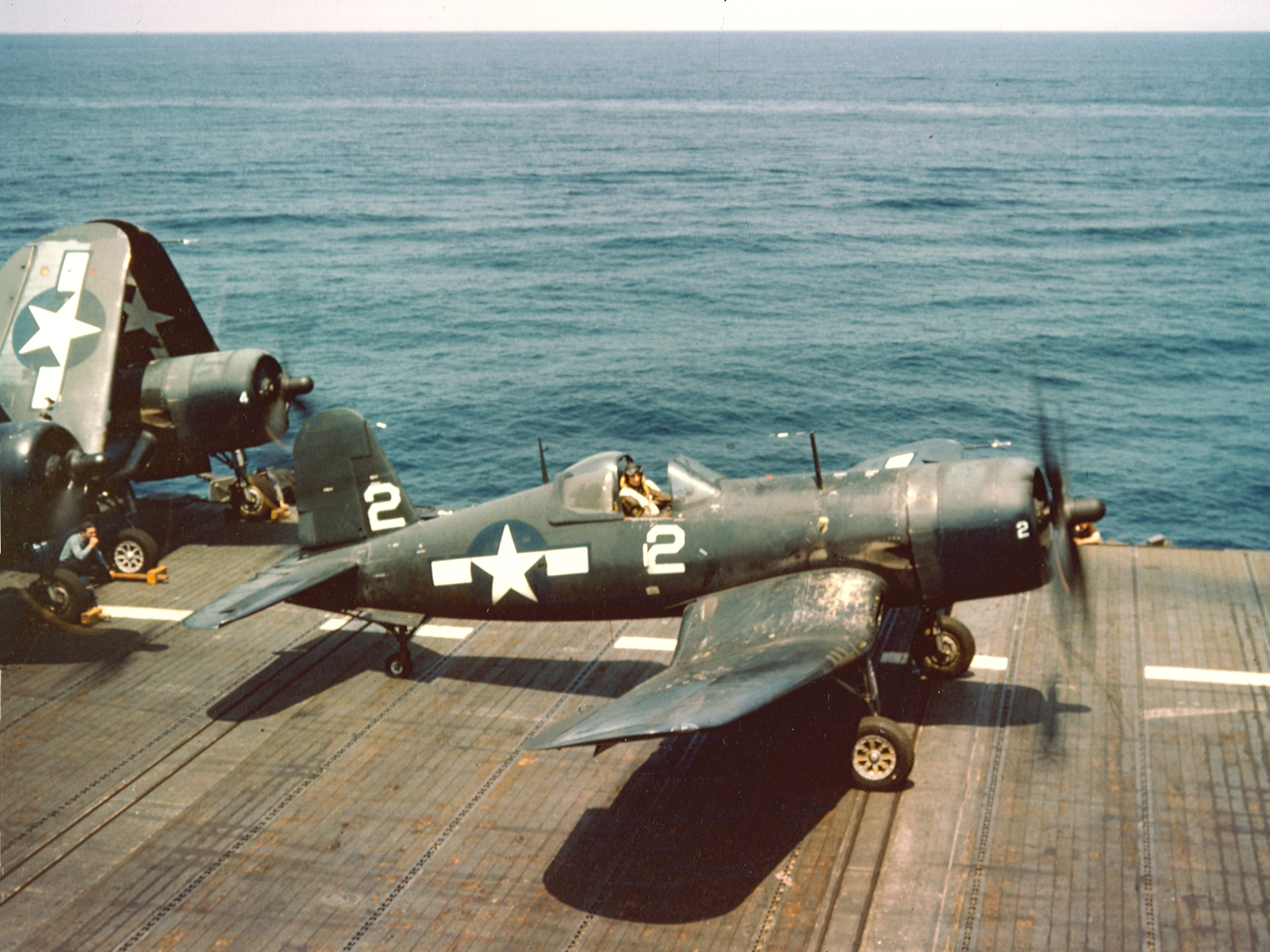 A U.S. Navy Vought F4U-4 Corsair of Bombing Fighter Squadron 82 (VBF-82) "Checkmates", piloted by Bud Geer, is preparing to take off from the deck of the aircraft carrier USS Randolph (CV-15). VBF-82 was assigned to Carrier Air Group 82 (CVG-82) for a deployment to the Mediterranean Sea from 22 October to 21 December 1946. During that cruise, VBF-82 was redesignated VF-18A and CVG-82 was redesignated CVAG-17 on 15 November 1946.